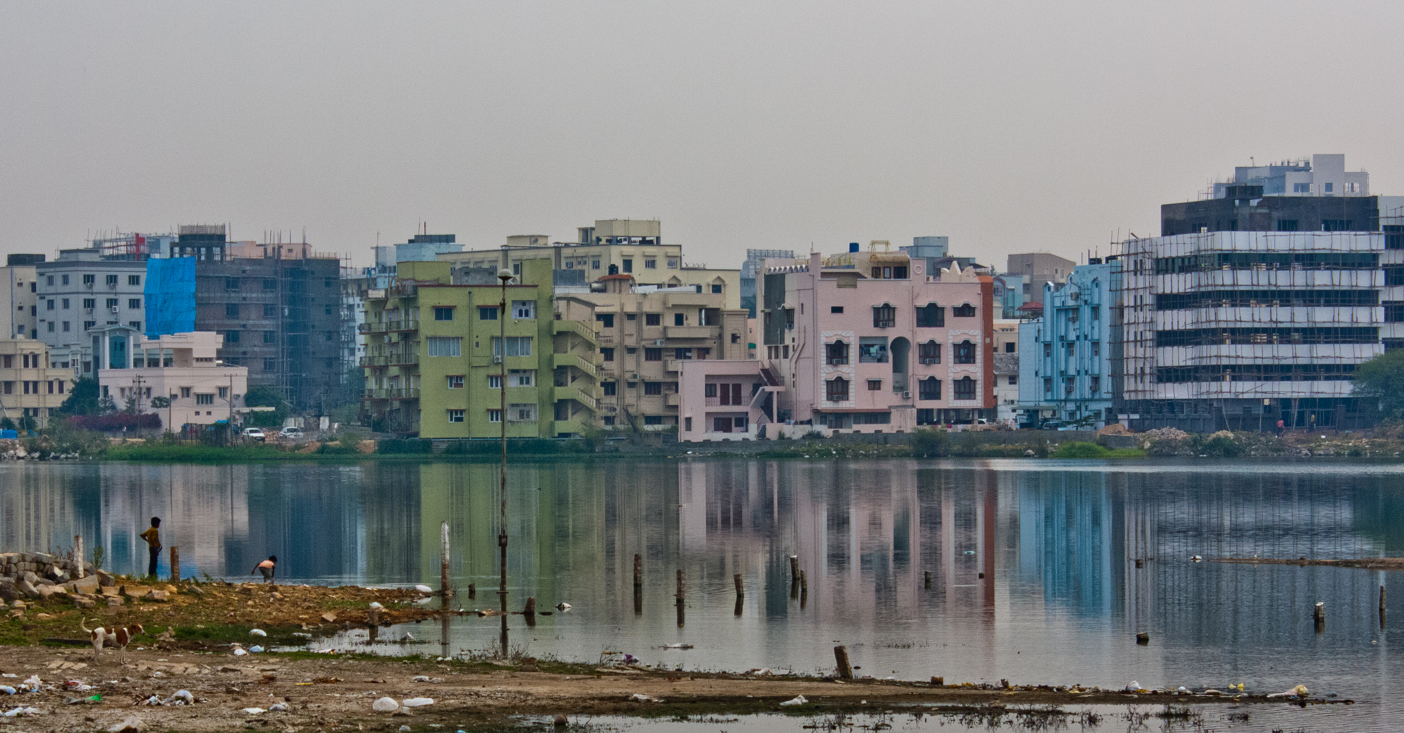 Meet the evil side of Hitech skyline